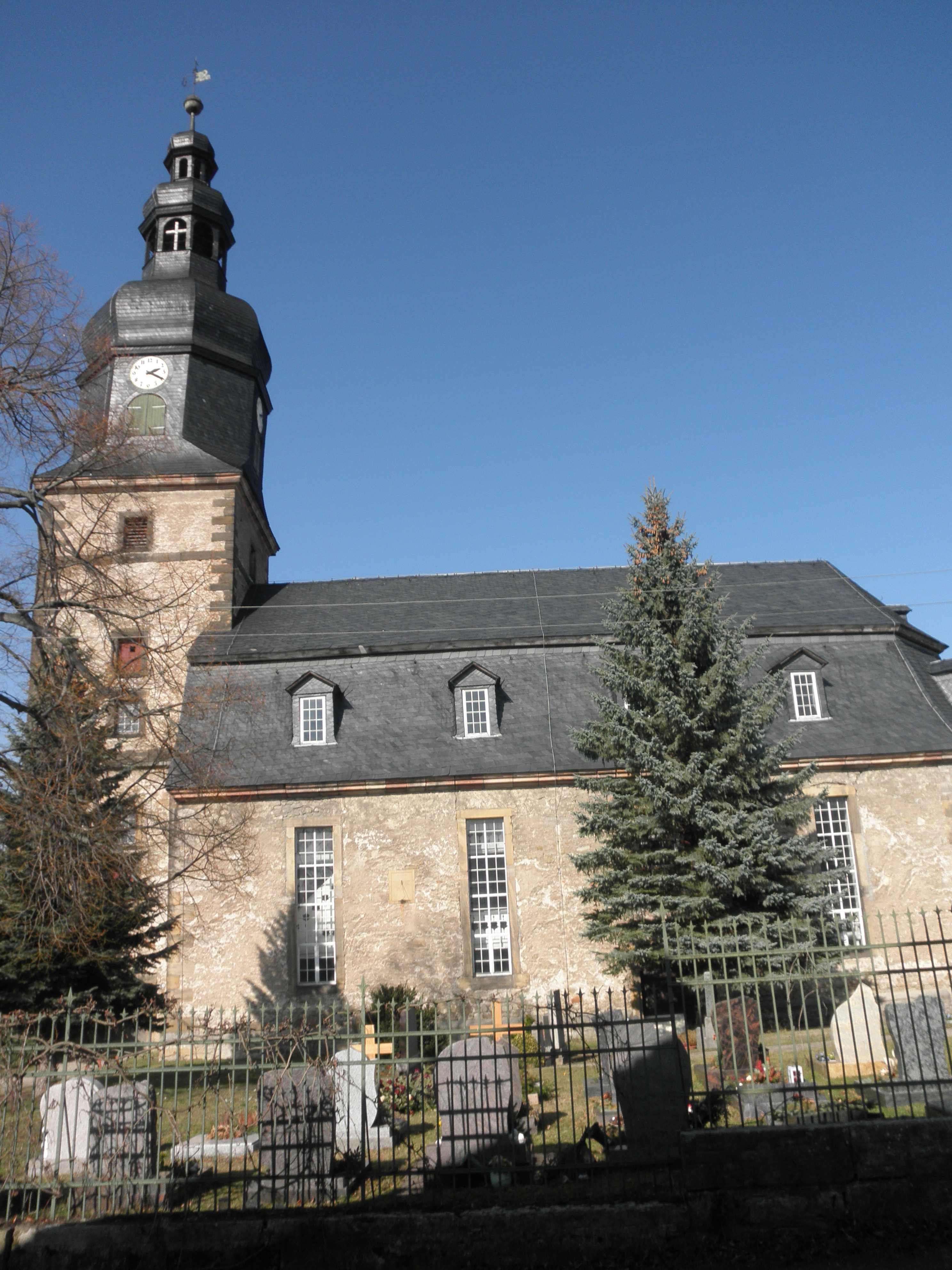 Church in Elxleben (Ilm-Kreis) in Thuringia